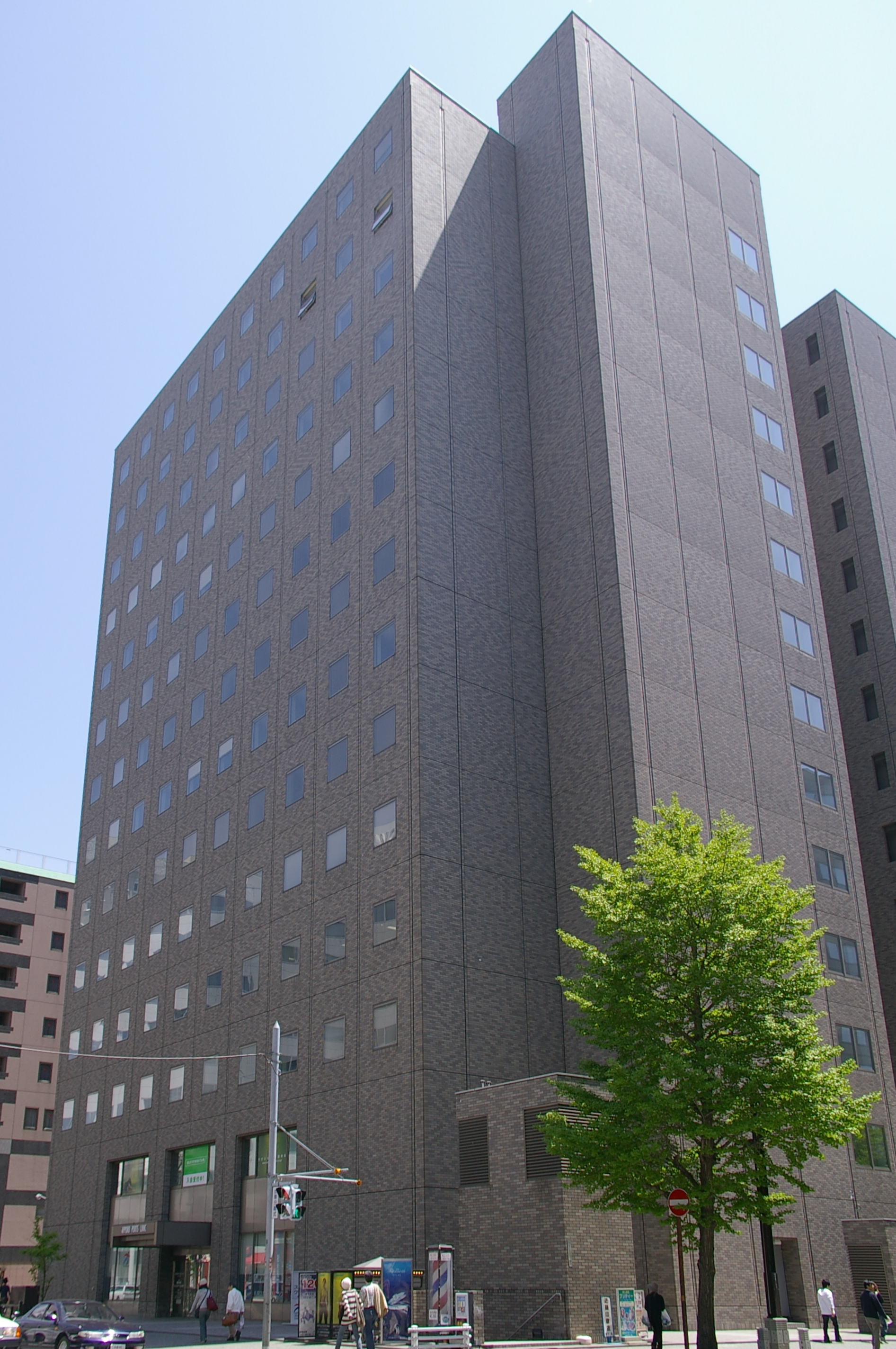 Photograph of Sapporo Tokeidai Building in Chuo-ku, Sapporo, Hokkaido, Japan.